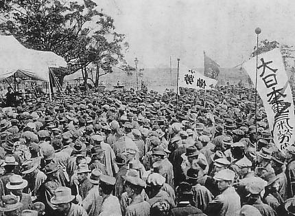 The 1st Labor Day (May Day) in Japan